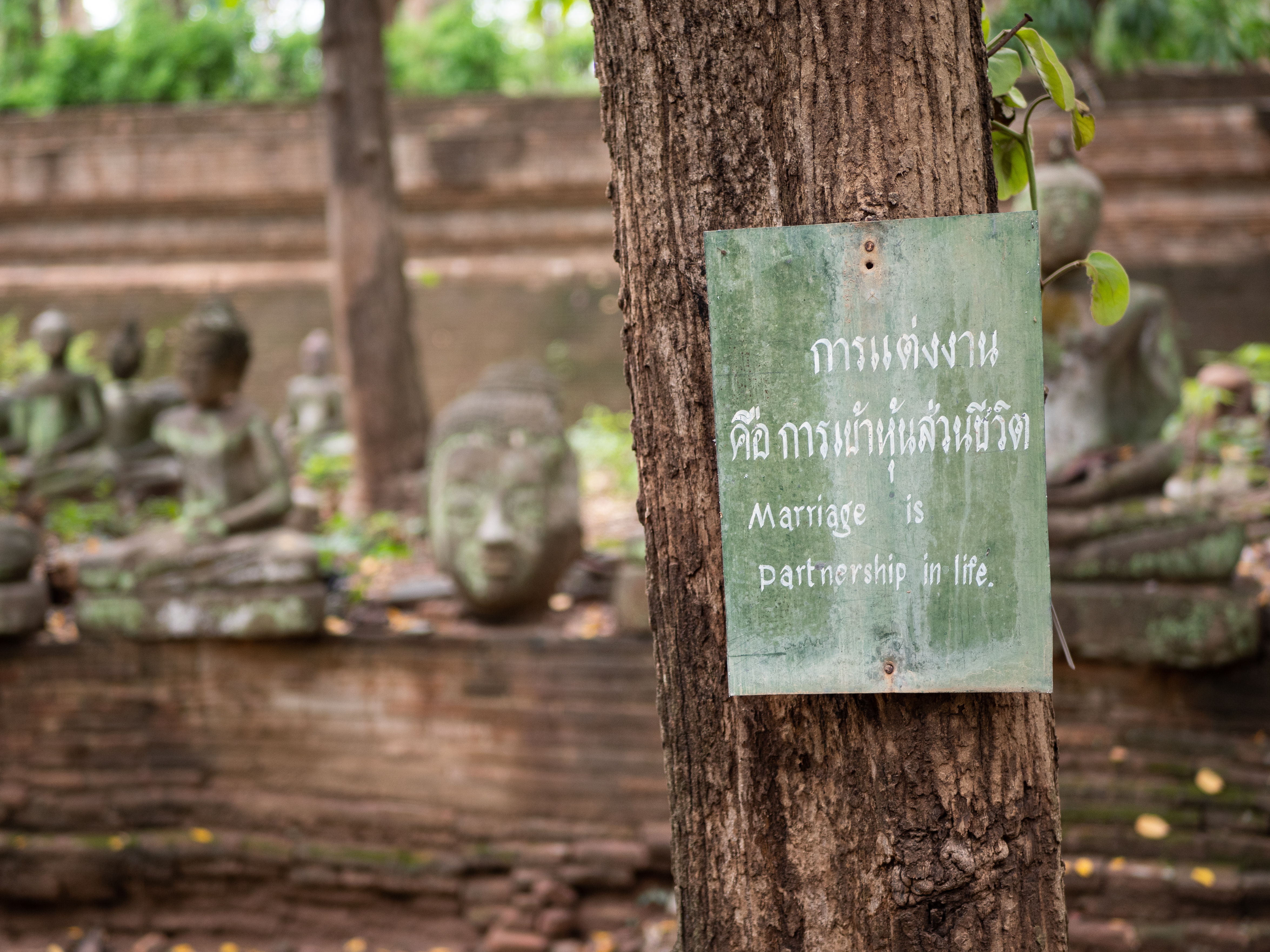 A "talking" sign at Wat Umong in Chiang Mai reading "Marriage is a partnership in life"